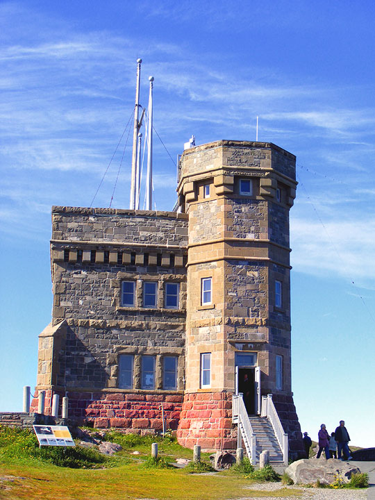 Cabot Tower (Newfoundland)[foto by Paul B. Toman]